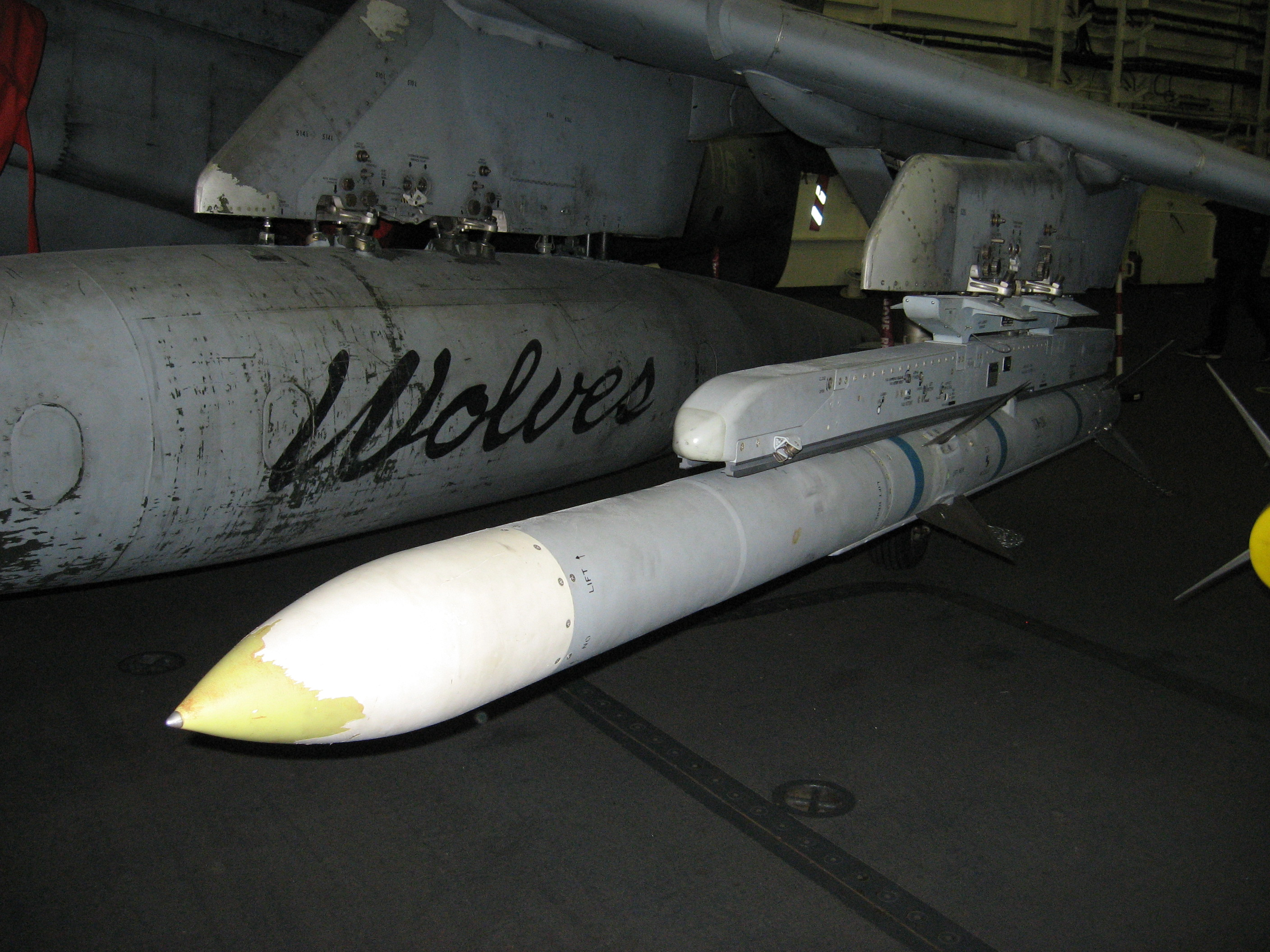 AIM-120 AMRAAM B on Harrier II (Italian Navy).